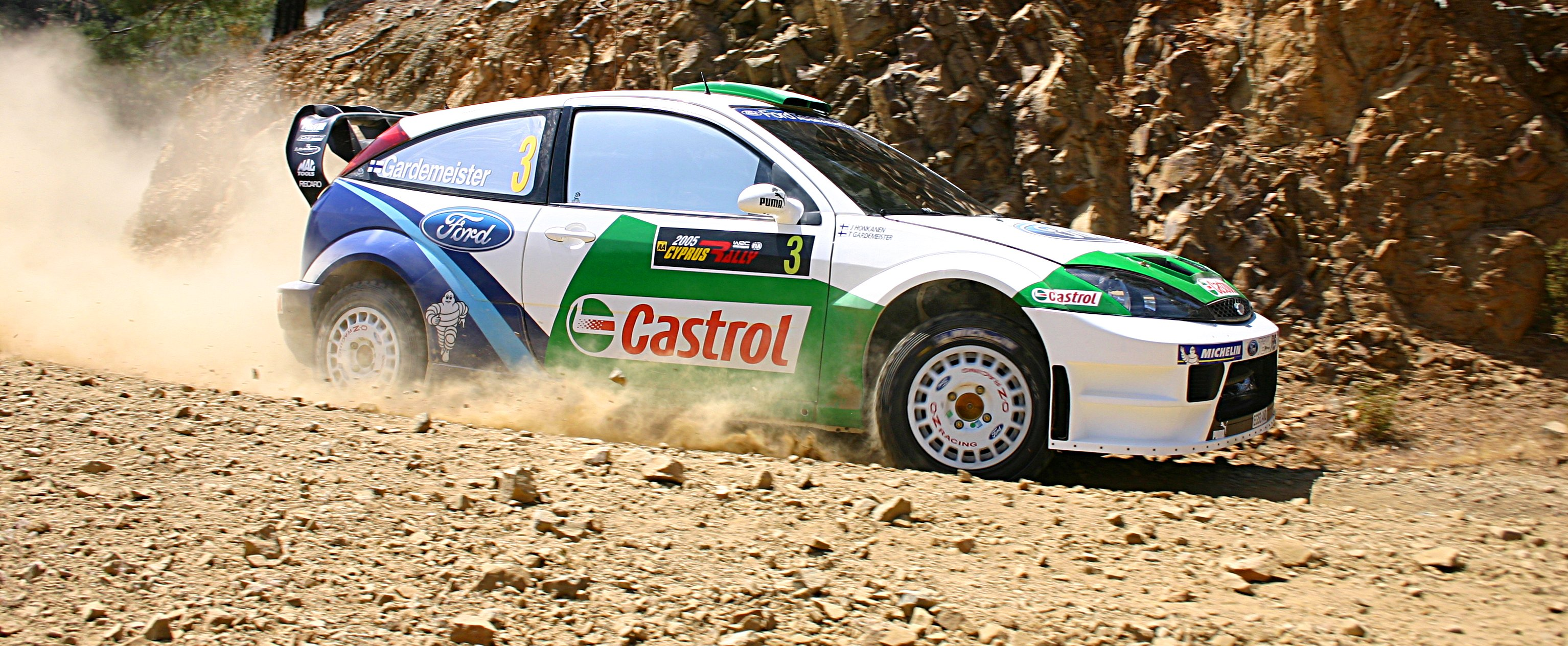 Toni Gardemeister driving his Ford Focus RS WRC 05 at the 2005 Cyprus Rally.